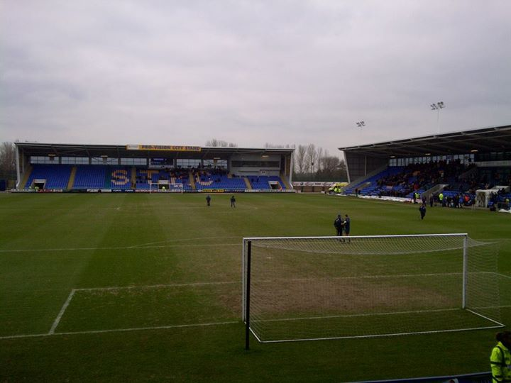 The Greenhous Meadow on a cold day, taken from the South Stand.